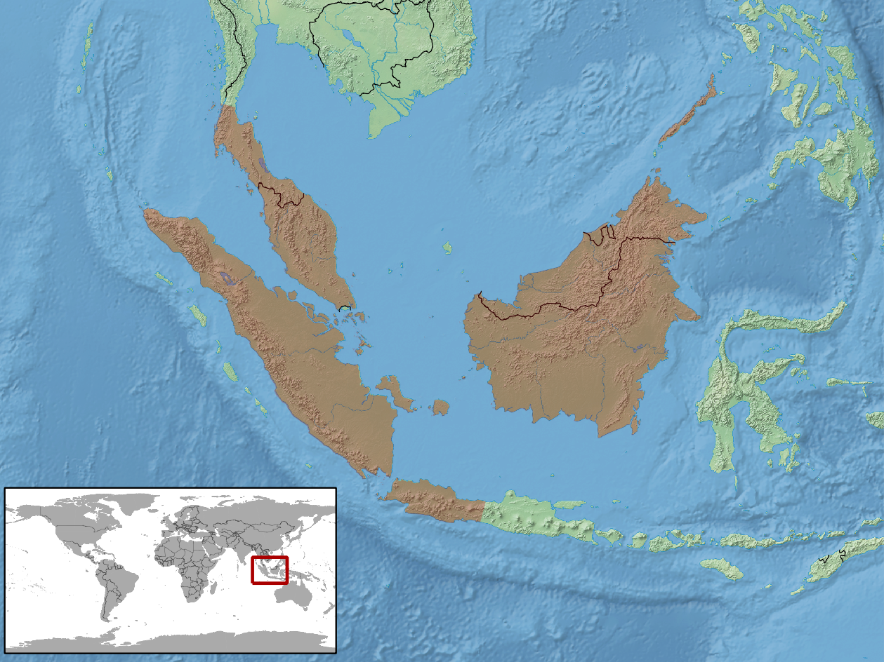 geographic distribution of Dryocalamus subannulatus (Native: Brunei Darussalam; Indonesia (Jawa, Kalimantan, Sumatera); Malaysia (Peninsular Malaysia, Sarawak); Philippines; Singapore; Thailand)